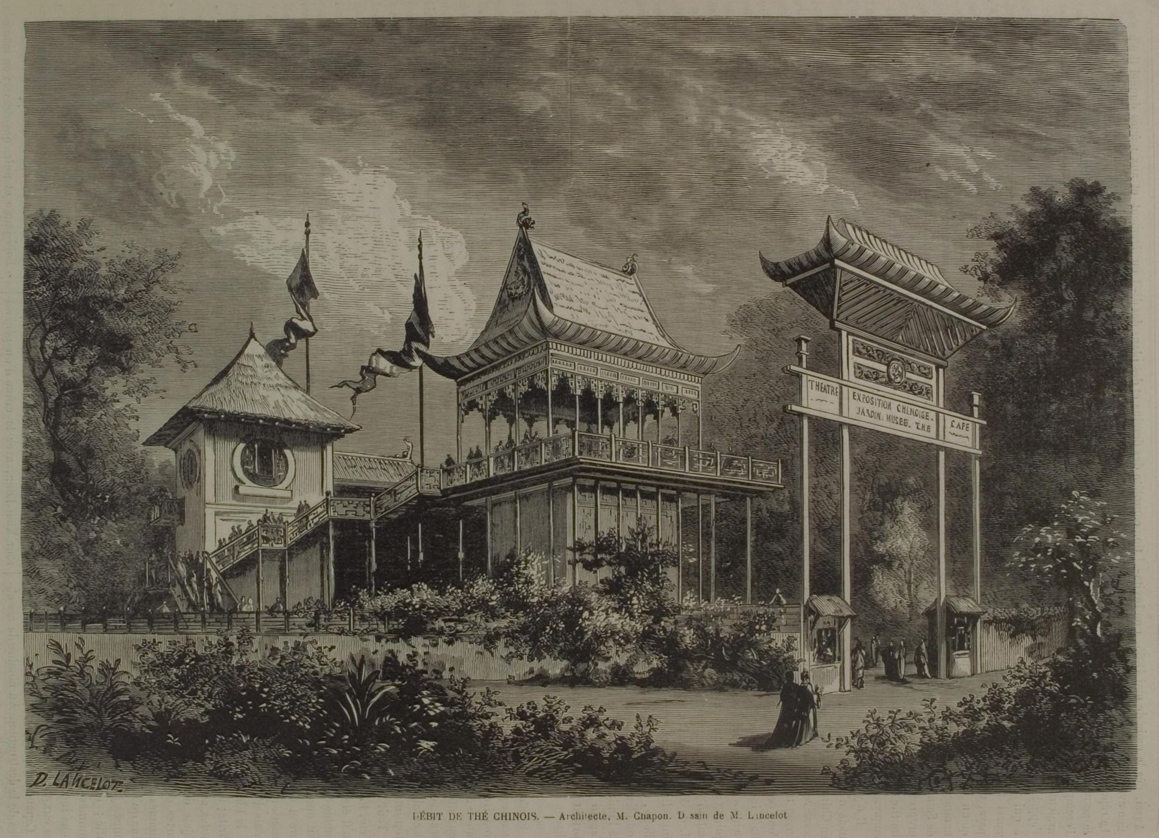 The Chinese pavilion from the International Exposition of 1867 in Paris.